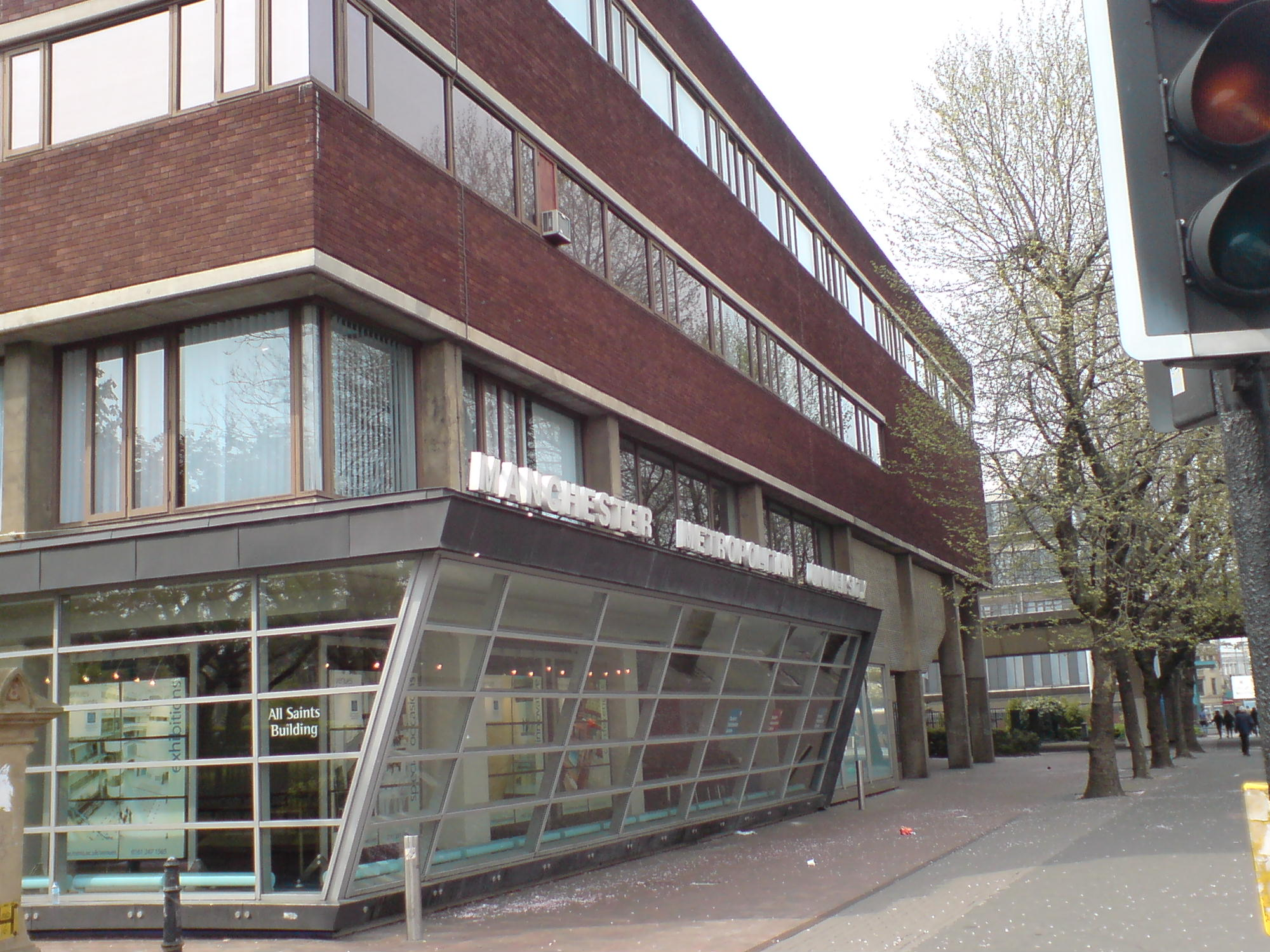 The All Saints Building of Manchester Metropolitan University on Oxford Road in Manchester, England, UK.